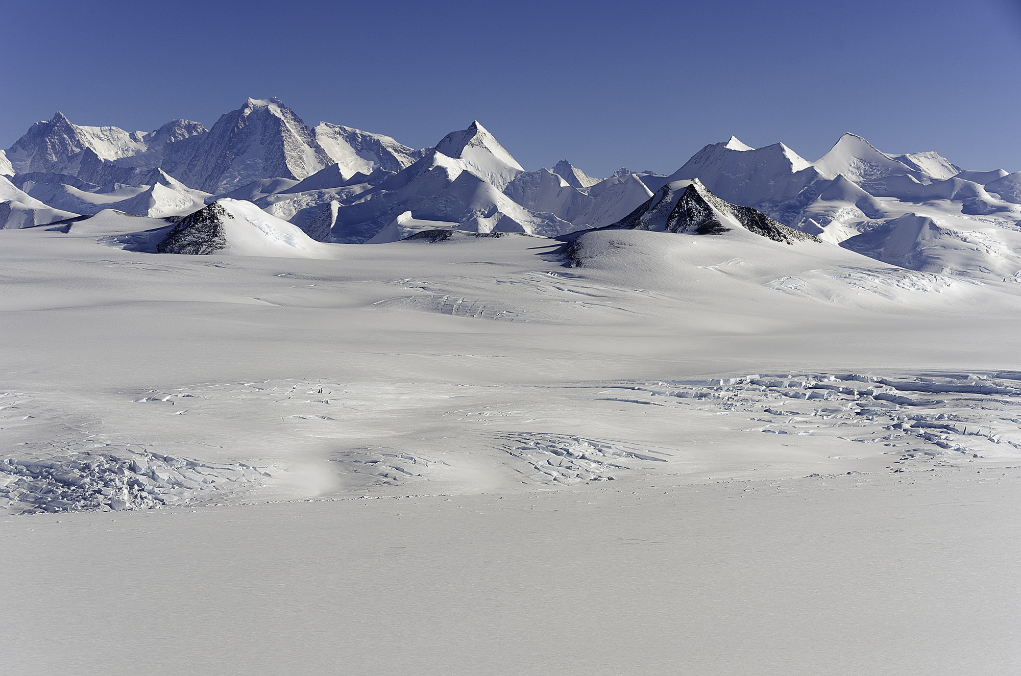 View of the Sentinel Range in the Ellsworth Mountains, Antarctica. Mission IceBridge, fall 2012